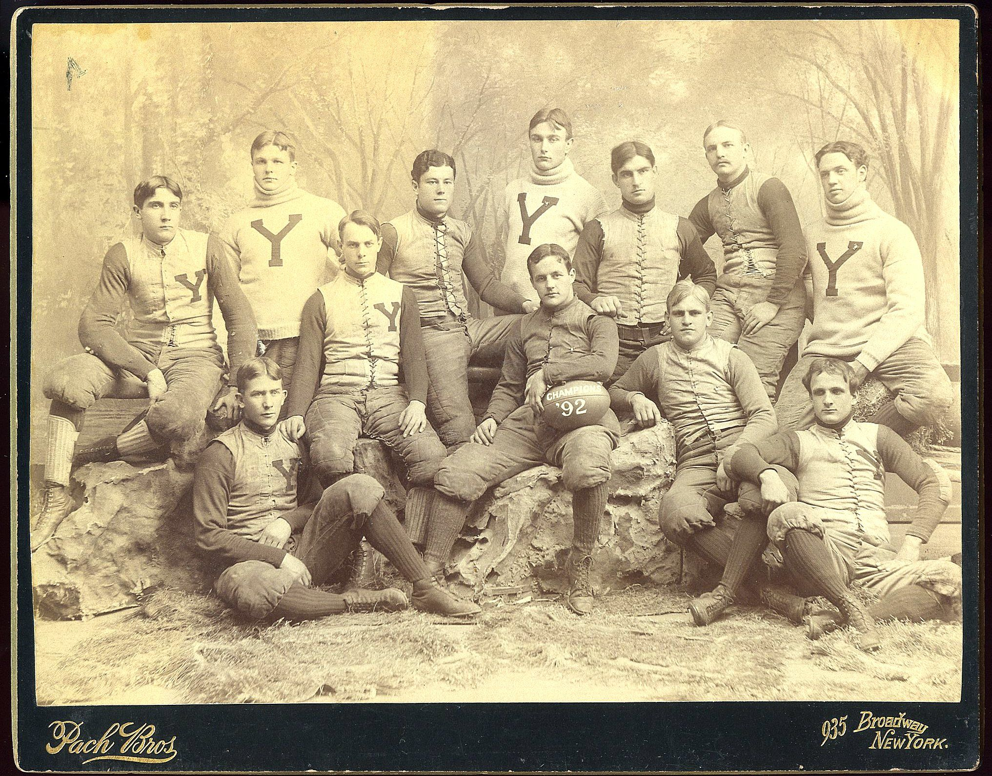 Yale University 1892 Football Cabinet Card Photograph